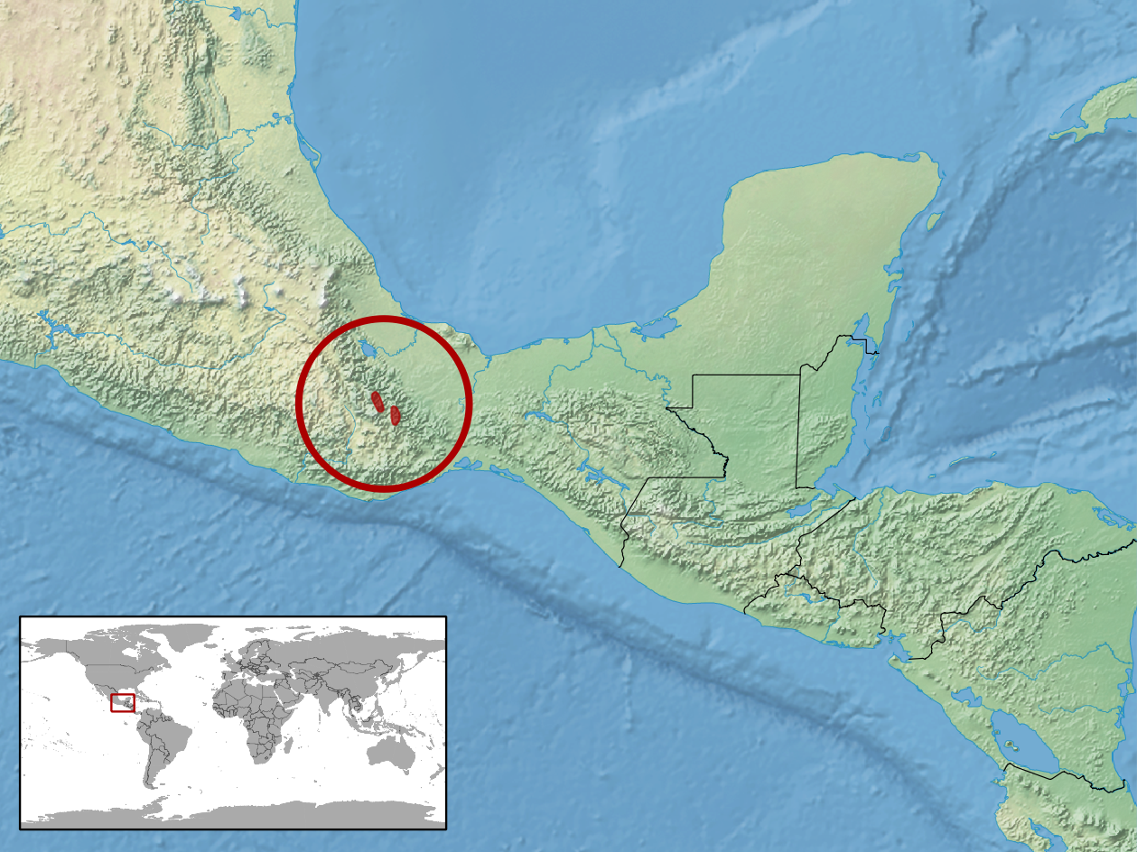 geographic distribution of Abronia fuscolabialis (Native: Mexico)